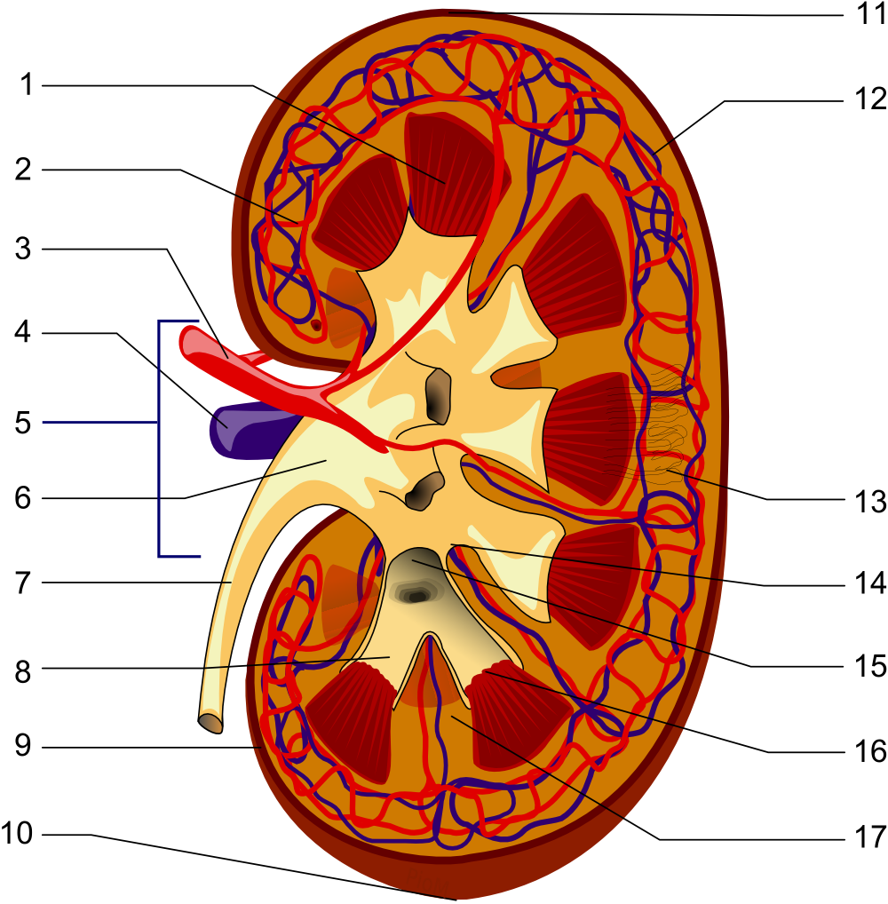 Structures of the kidney: Renal pyramid Interlobular artery Renal artery Renal vein Renal hylum Renal pelvis Ureter Minor calyx Renal capsule Inferior extremity Superior extremity Interlobar vein Nephron Renal sinus Major calyx Renal papilla Renal column (no distinction for red/blue (oxygenated or not) blood, arteriole is between capilaries and larger vessels)